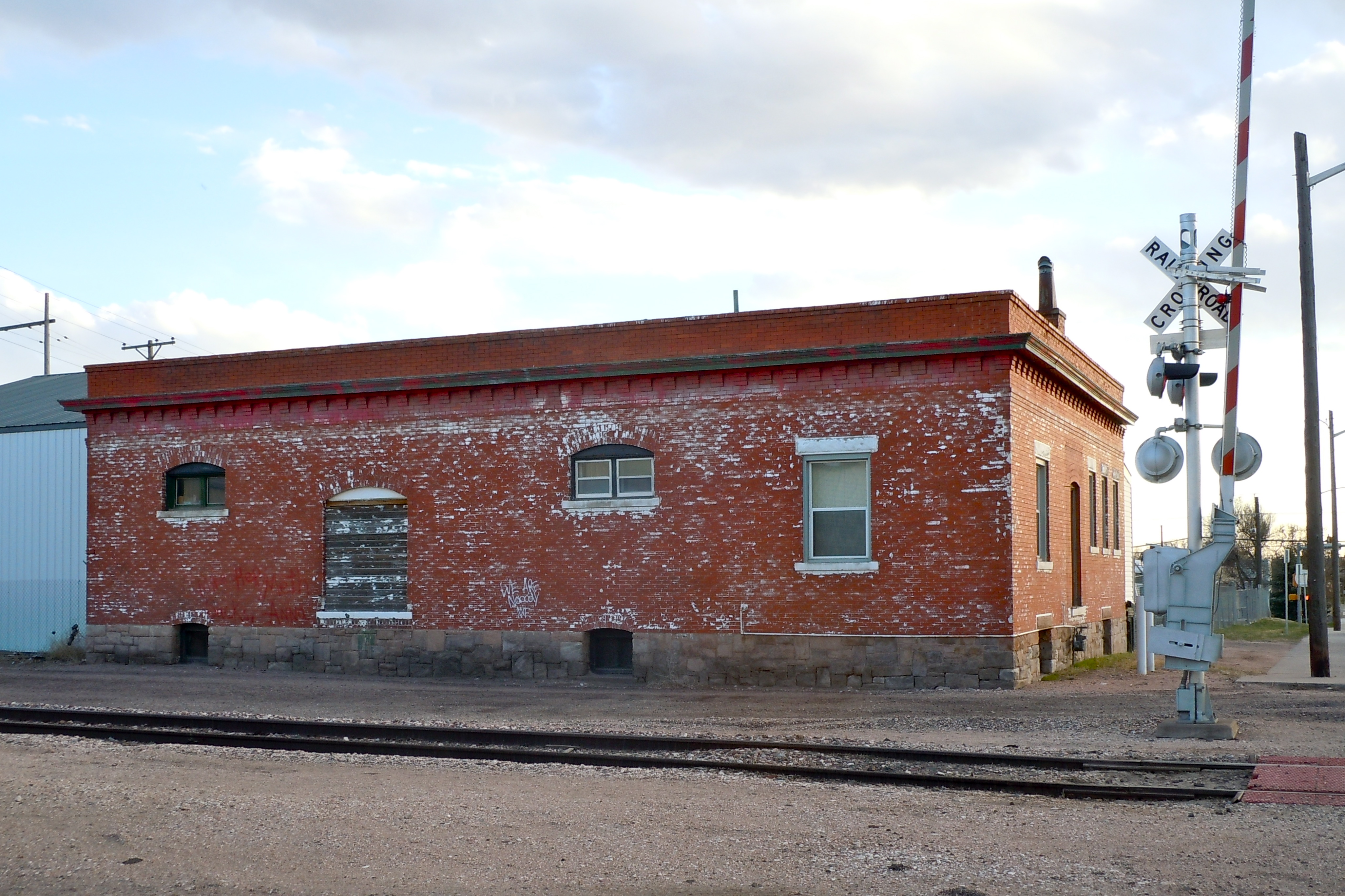 Continental Oil Company on the NRHP since October 13, 2003. At 801 W. 19th St., Cheyenne, Laramie County, Wyoming.